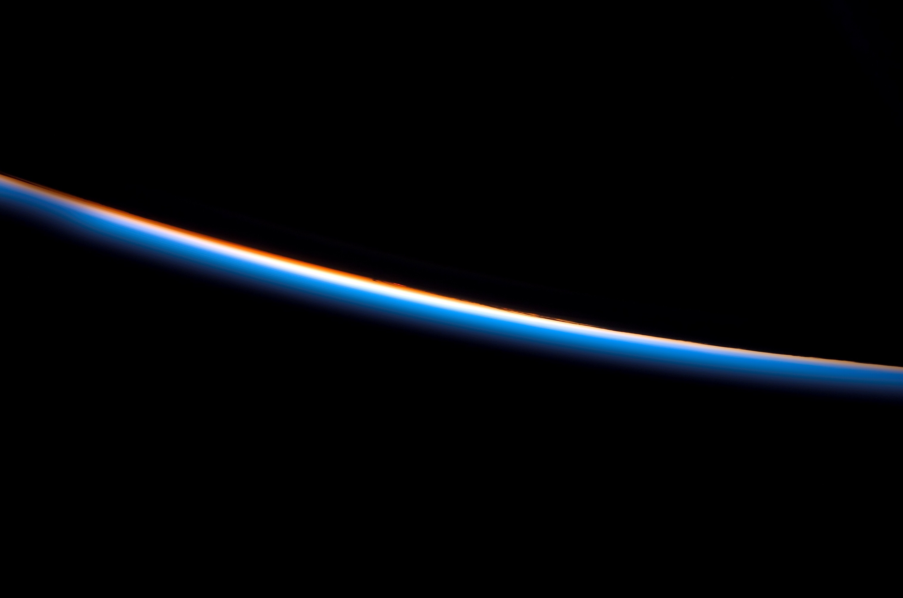 A colorful view of airglow layers at Earth's horizon is featured in this image photographed by a STS-122 crewmember on the Space Shuttle Atlantis.